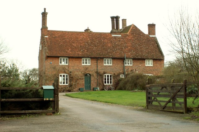 Farmhouse at Abbey Farm This farm lies just south of Hoxne village and stands on, or near, the site of a Benedictine priory first founded at Hoxne in 950 to commemorate the site of the martyrdom of King Edmund. Nothing survives of the priory.